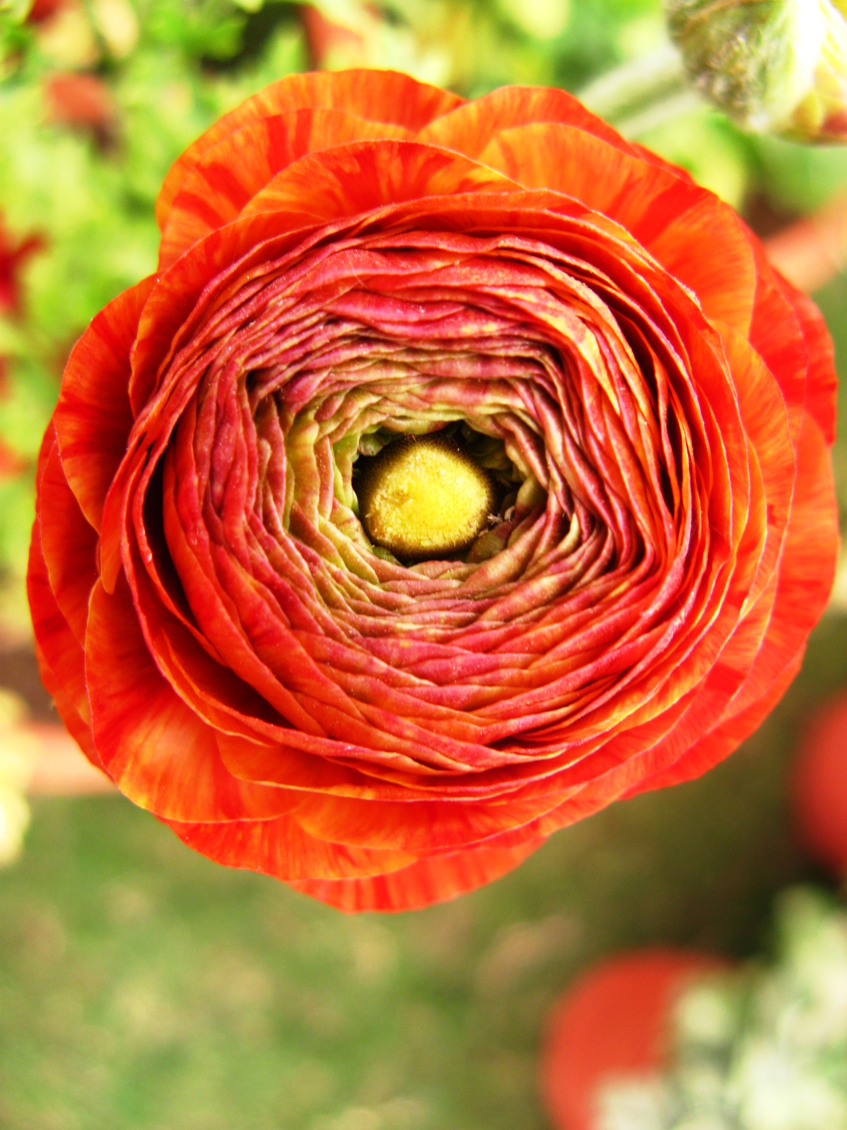 Flower Rose from the Noida Flower show 2009